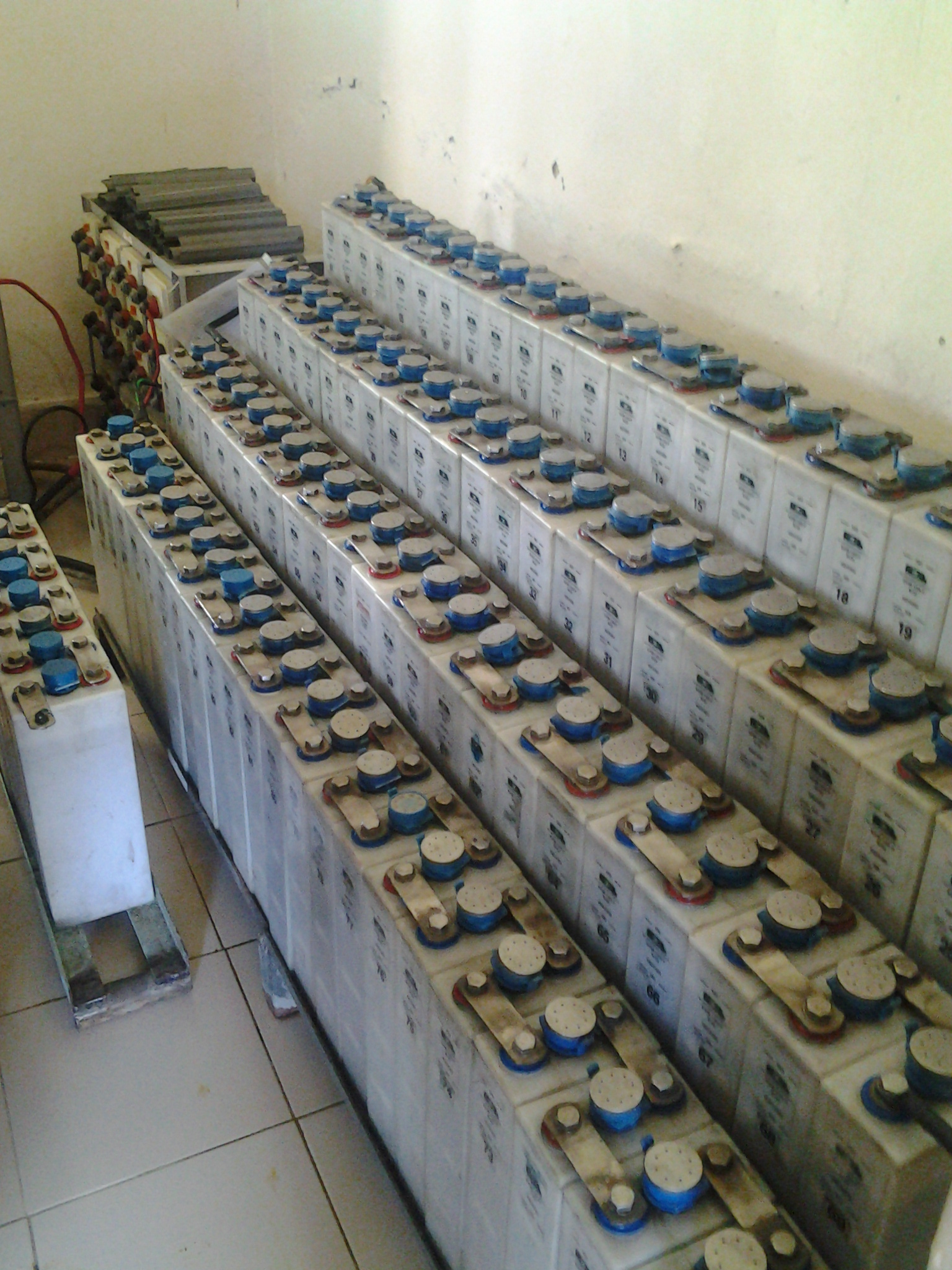 Rows of Batteries